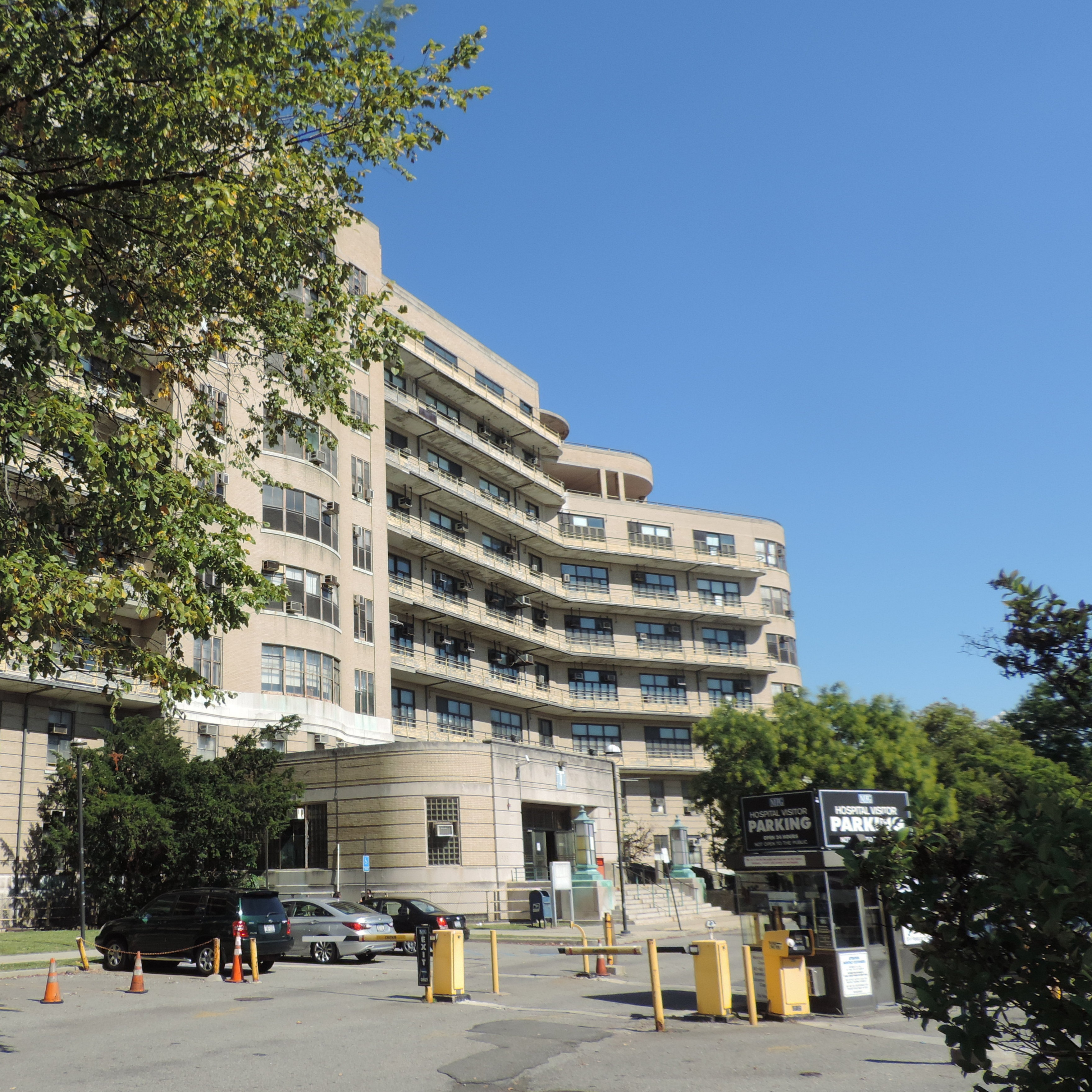 Looking north at hospital from Parsons on a sunny day.